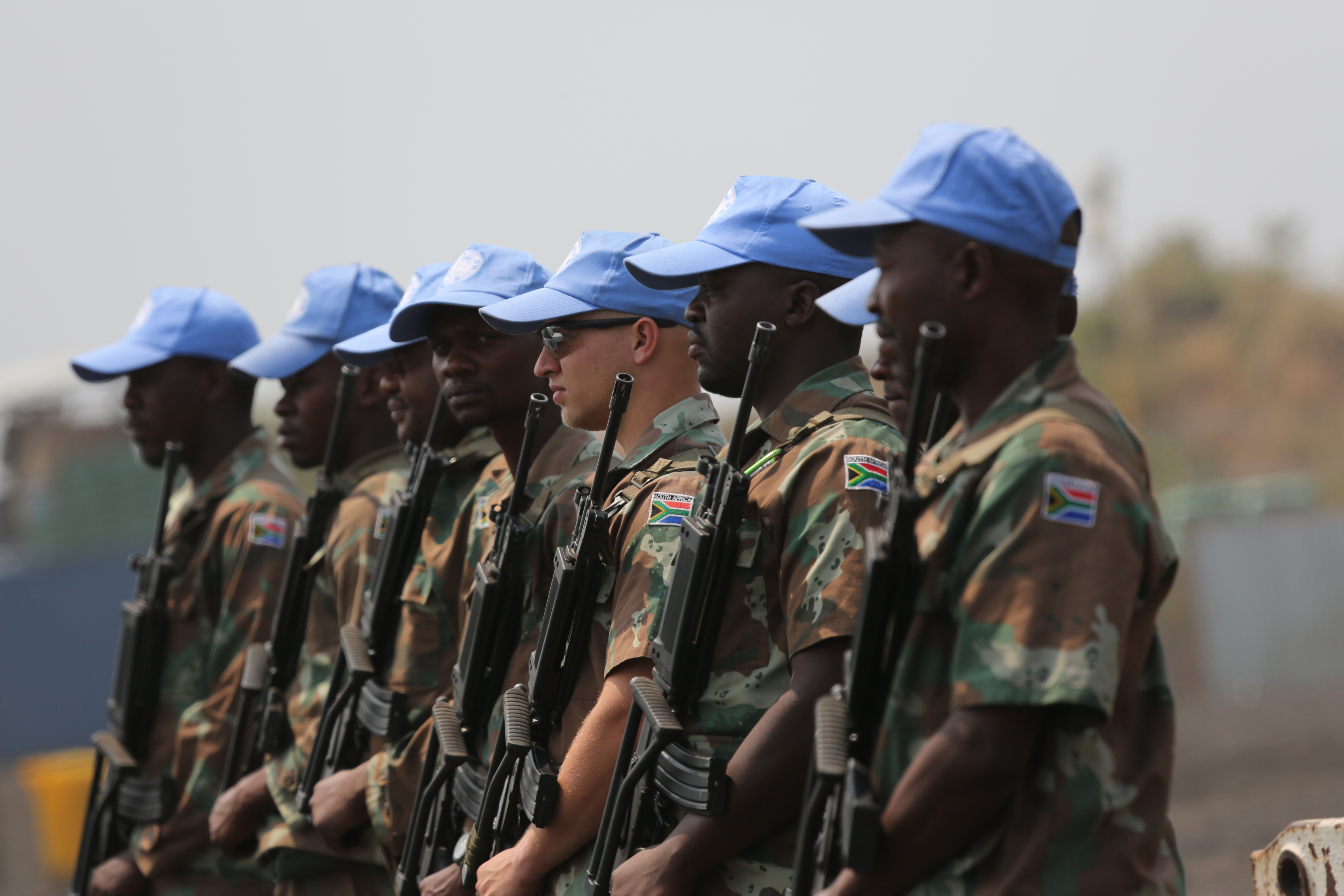 2013_07_24_ DRC North Kivu Province Goma ASG Field support visit FIB site in Sake about 10 km from Goma. MONUSCO/ Photo Myriam Asmani